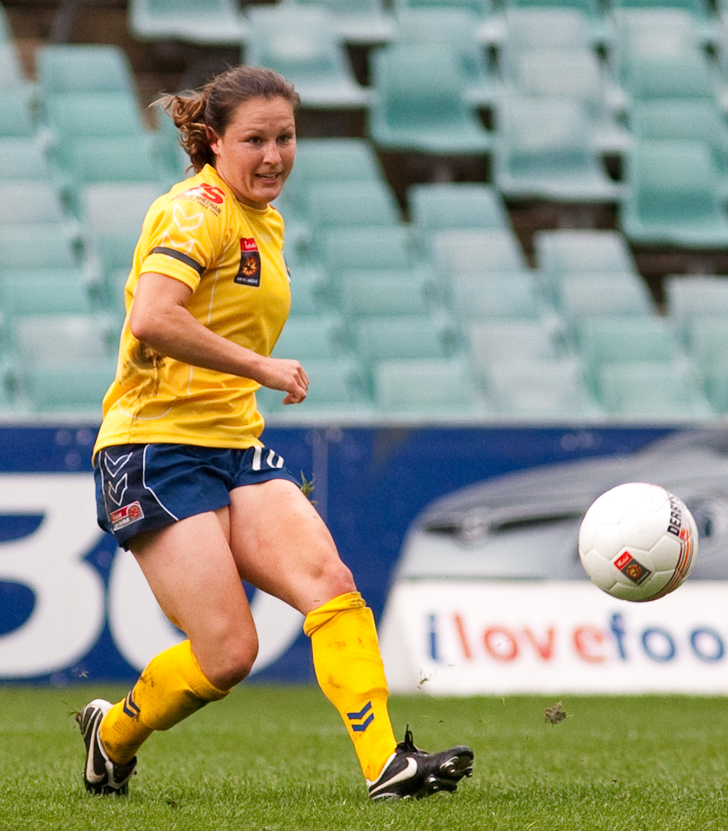 Kendall Fletcher playing for the Central Coast Mariners against Sydney FC in Round 1 of the 2009 W-League.